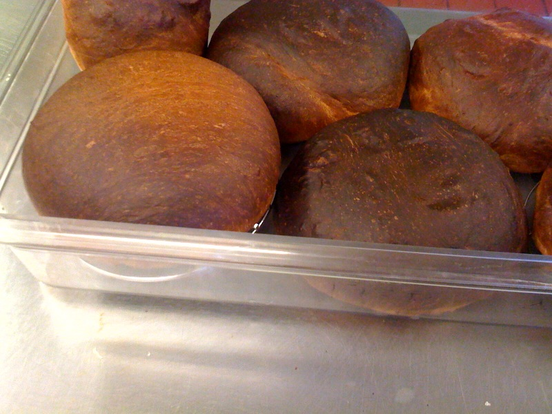 one of a dozen loaves of Pão Doce (Portuguese sweet bread)